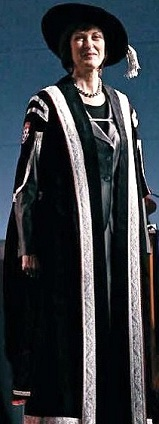 Ceremonial robe of McGill University principal and vice-chancellor.